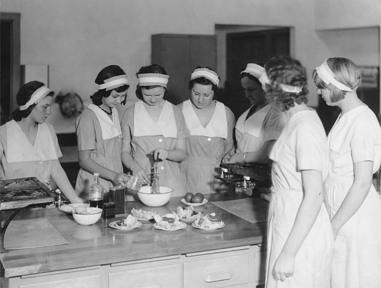 Students in home economics showing girls learning cooking skills Photographer: Unknown Subjects (LCSH): Home economics students--Washington (State) Girls--Washington (State) Cookery--Study and teaching--Washington (State) Classrooms--Washington (State) Group portraits Digital Collection: Washington Localities Collection Item Number: WAS1364 Persistent URL: Visit Special Collections page for information on ordering a copy. University of Washington Libraries. Digital Collections